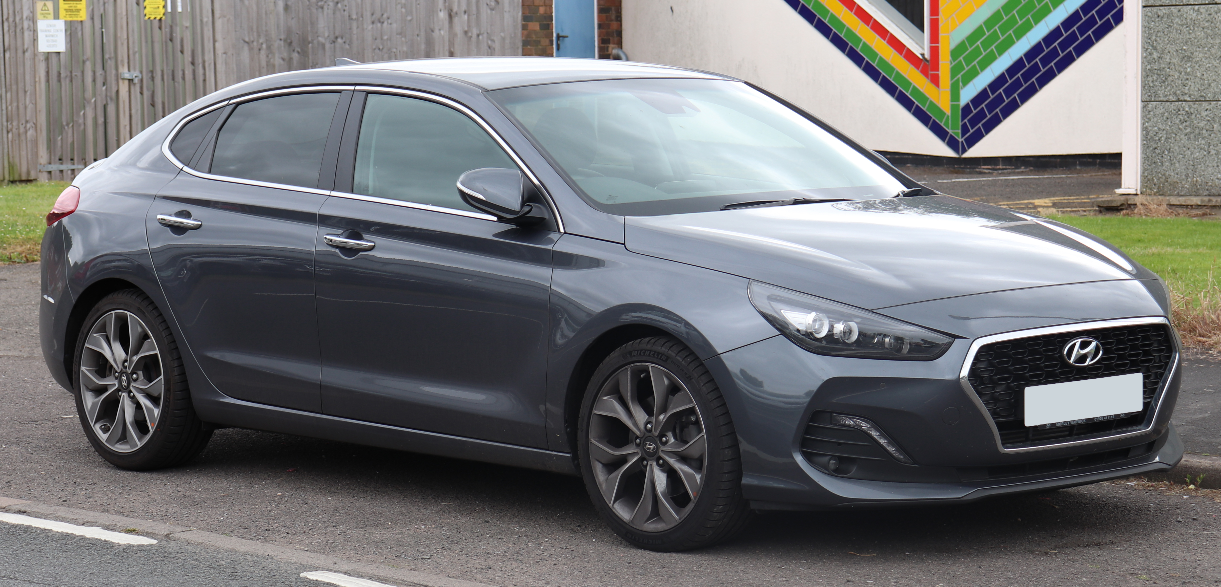 2018 Hyundai i30 Premium S-A Fastback 1.3 Front Taken in Warwick